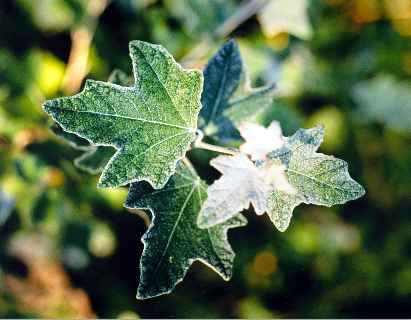 Populus alba, leaves of young tree